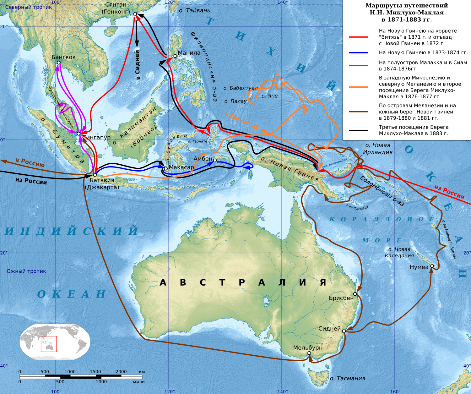 Nicolas Miklouho-Maclay routes in Australia, Oceania and South-East Asia.